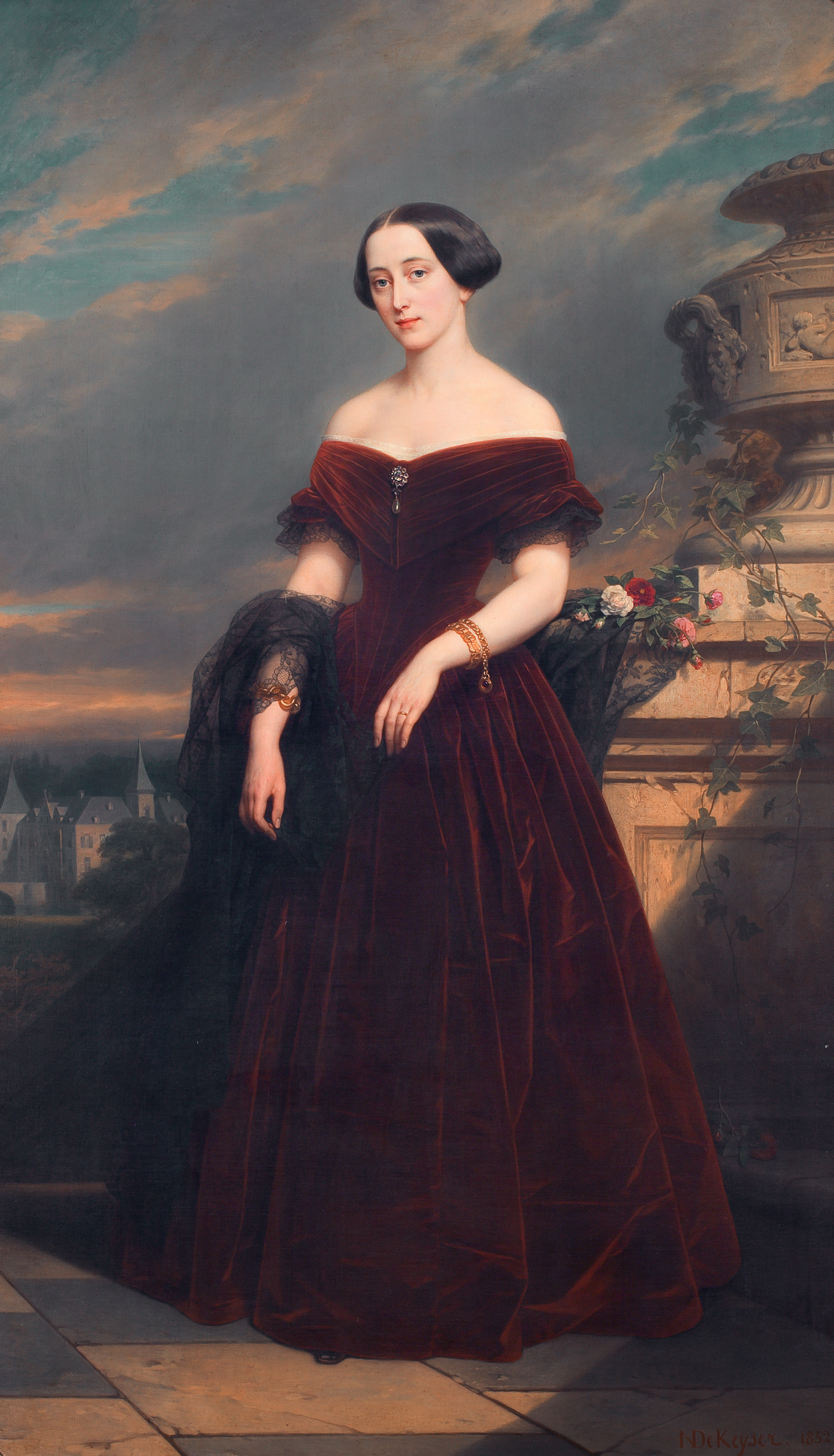 Isabelle Antoinette Barones Sloet van Toutenburg (1823-1872) oil on canvas 220 x 130 cm signed b.r.: NDe Keyser . 1852